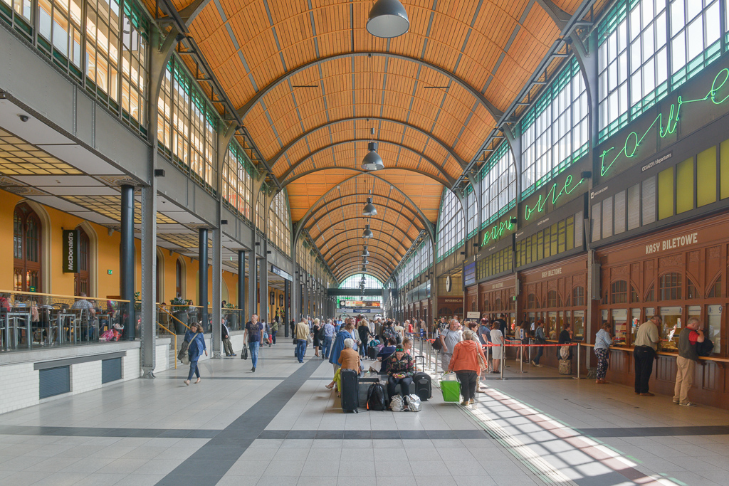 Wrocław Główny railway station, interior photography, Lower Silesia, Poland